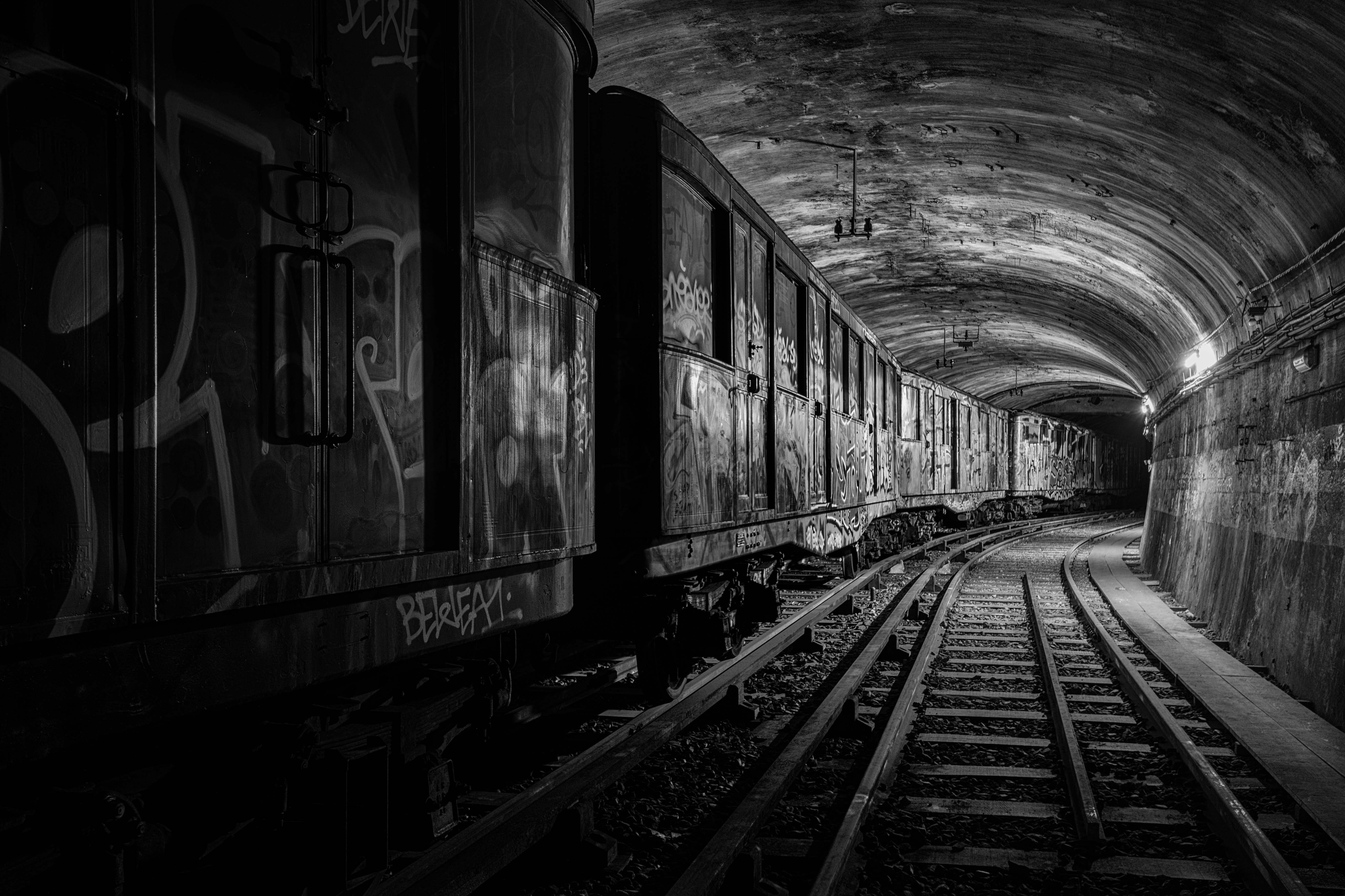 Vintage Sprague rolling stock in a disused tunnel inside the Paris Metro system.